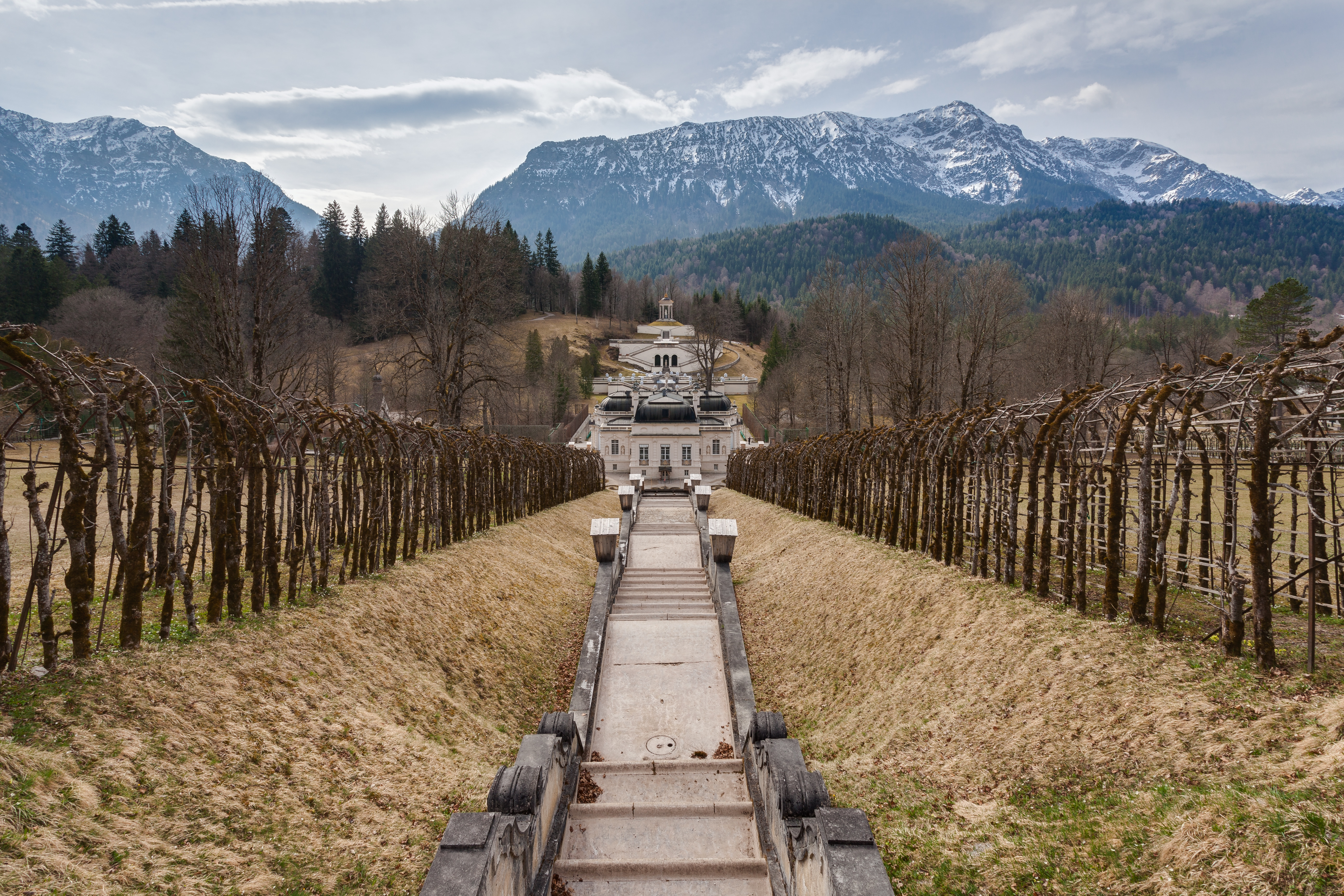 Linderhof Palace, Bavaria, Germany